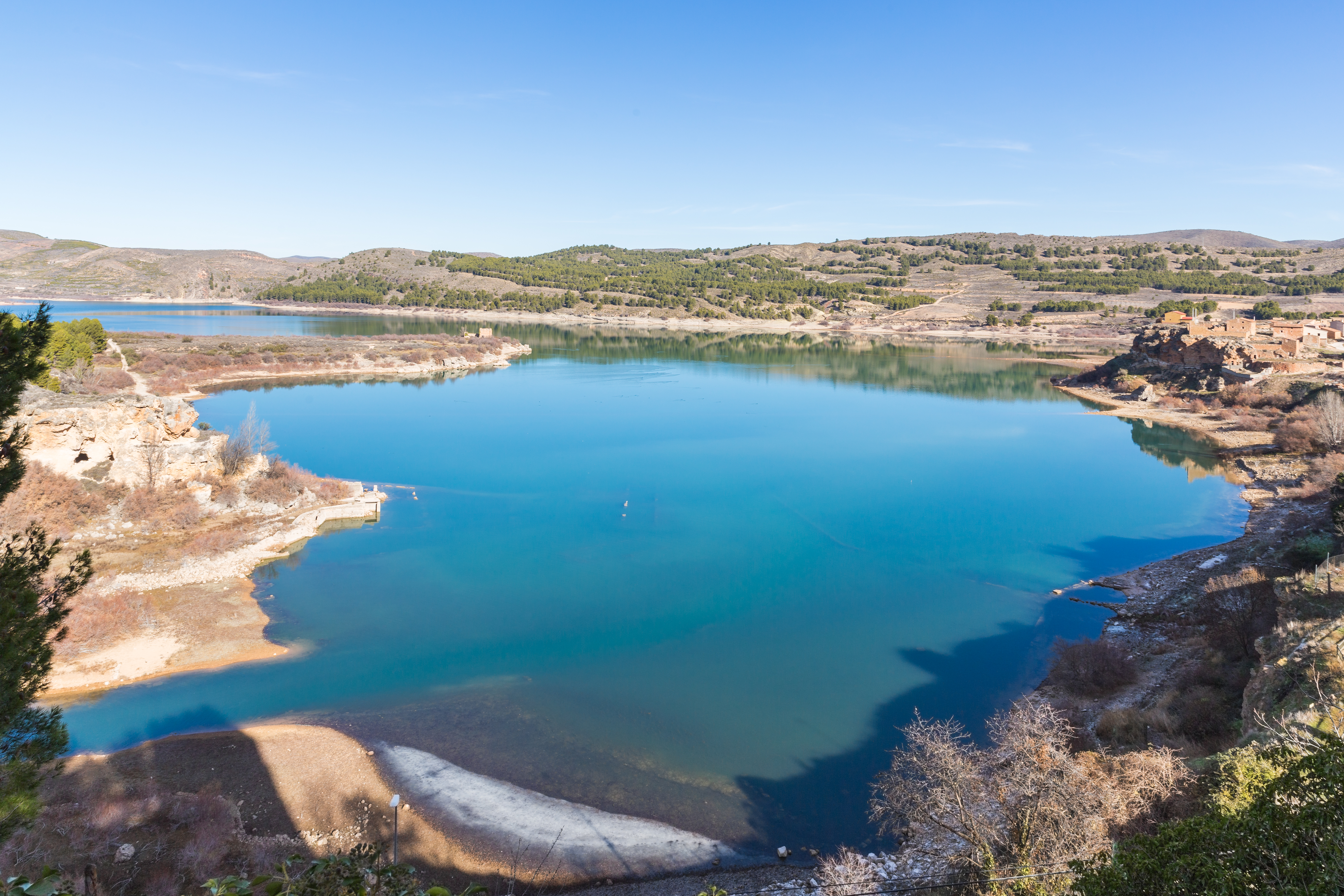 Reservoir of La Tranquera, Zaragoza, Spain